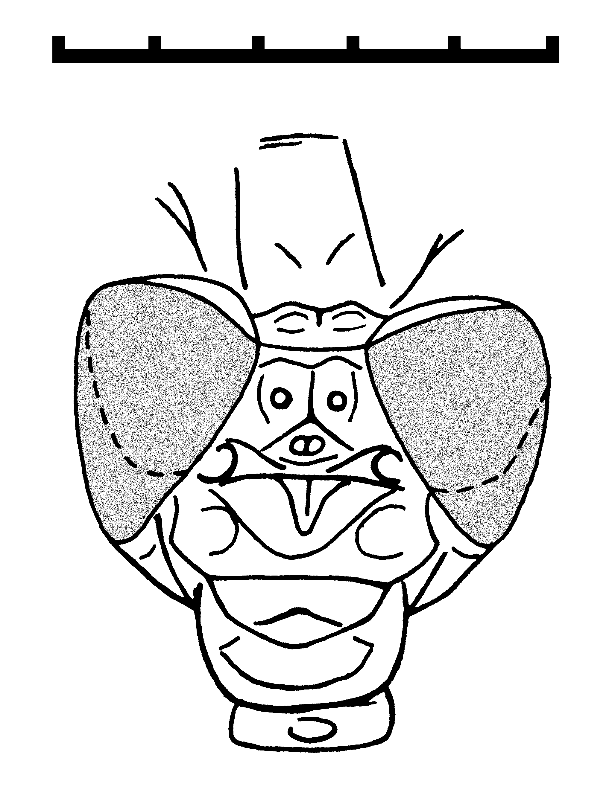 Tarsophlebia eximia (Odonata: Tarsophlebioptera: Tarsophlebiidae), Upper Jurassic, Solnhofen Plattenkalk, male specimen MCZ 6129, head, scale 5 mm, drawing by G. Bechly